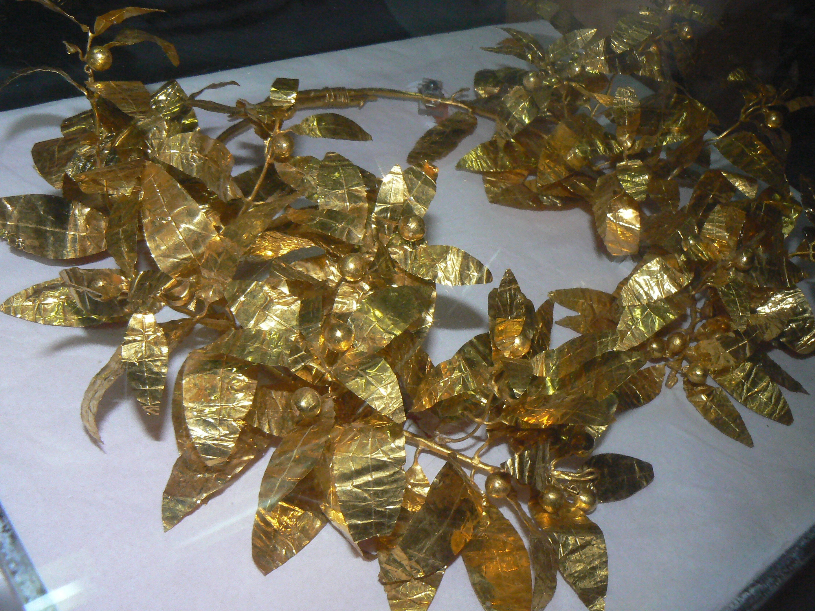 A golden wreath, found in the Mogilanska Tumulus. An exhibit of the Vratsa History Museum